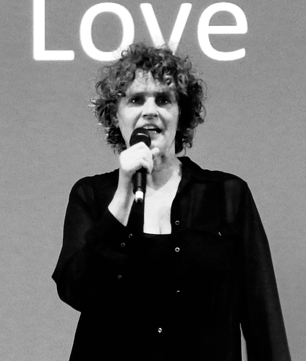 portrait